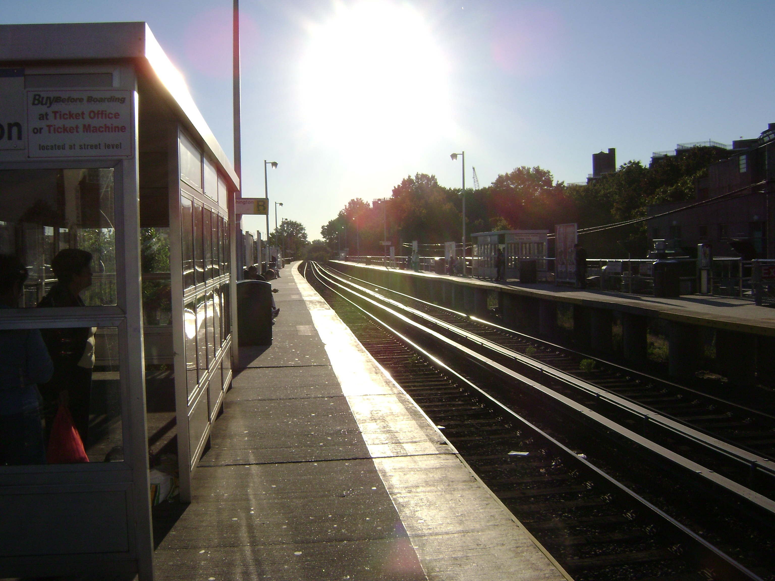 The Flushing Main Street station.